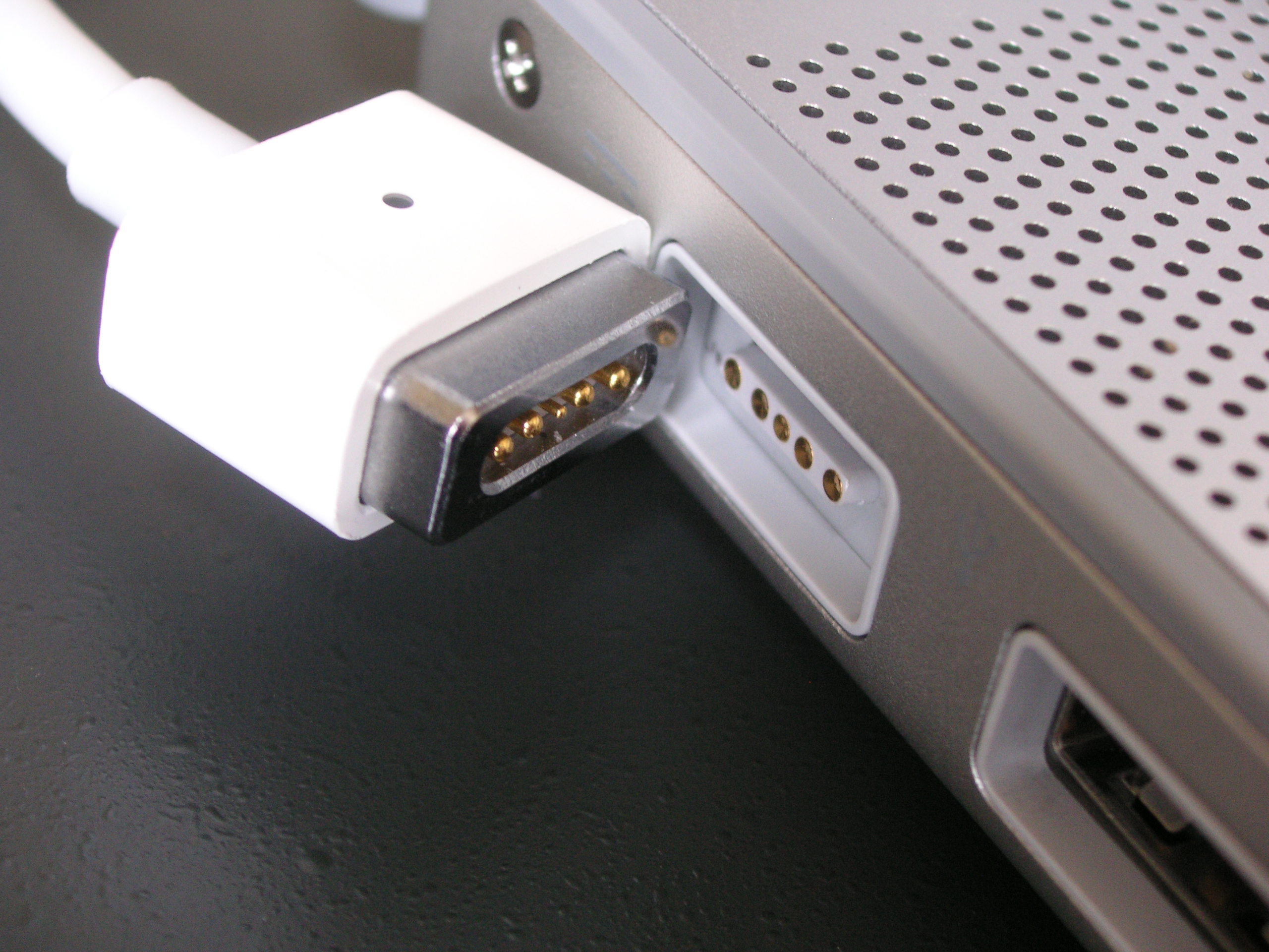 The Magsafe 1 plug and socket of an old (Non Unibody) 15" Apple MacBook Pro.